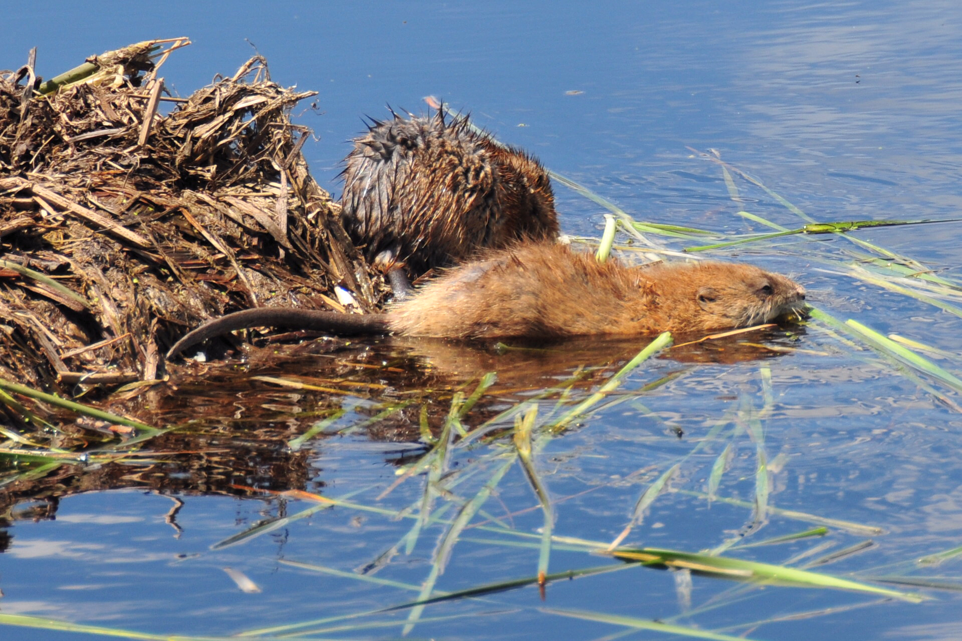 A pair of muskrats feeding on cattail stems on Lacreek NWR Photo: Tom Koerner/USFWS